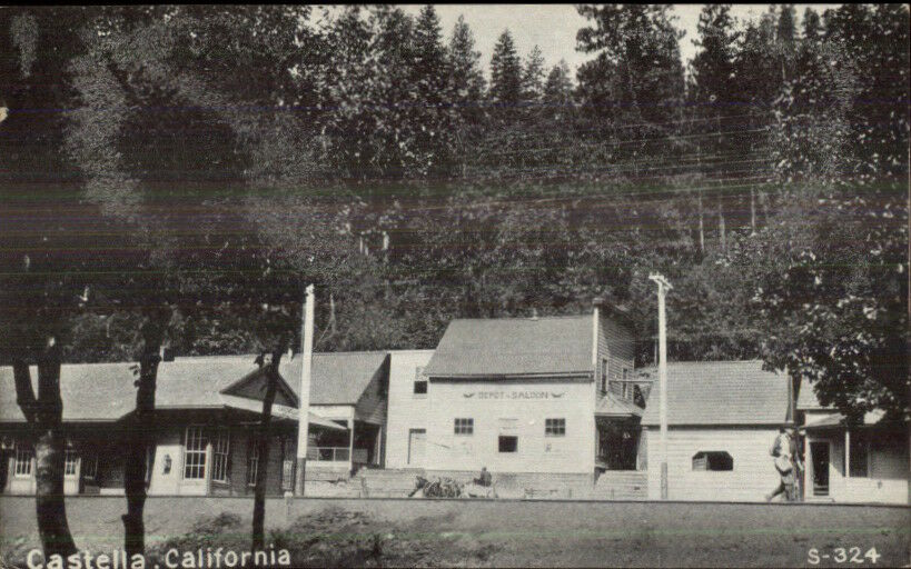 Early divided back postcard of Castella station